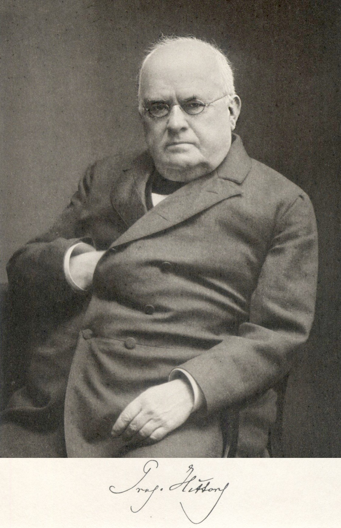 Taken from the special issue in honour of the 80th anniversary of Hittorf's birth, Leipzig: Barth 1904. Preface by Adolf Heydweiller, Münster, (Ed.) J. W. Hittorf and J. Plücker: On the spectra of ignited gases and vapours with especial regard to the same elementary gaseous substance. Phil. Trans. Royal Soc. (London) 155, 1 (1865).